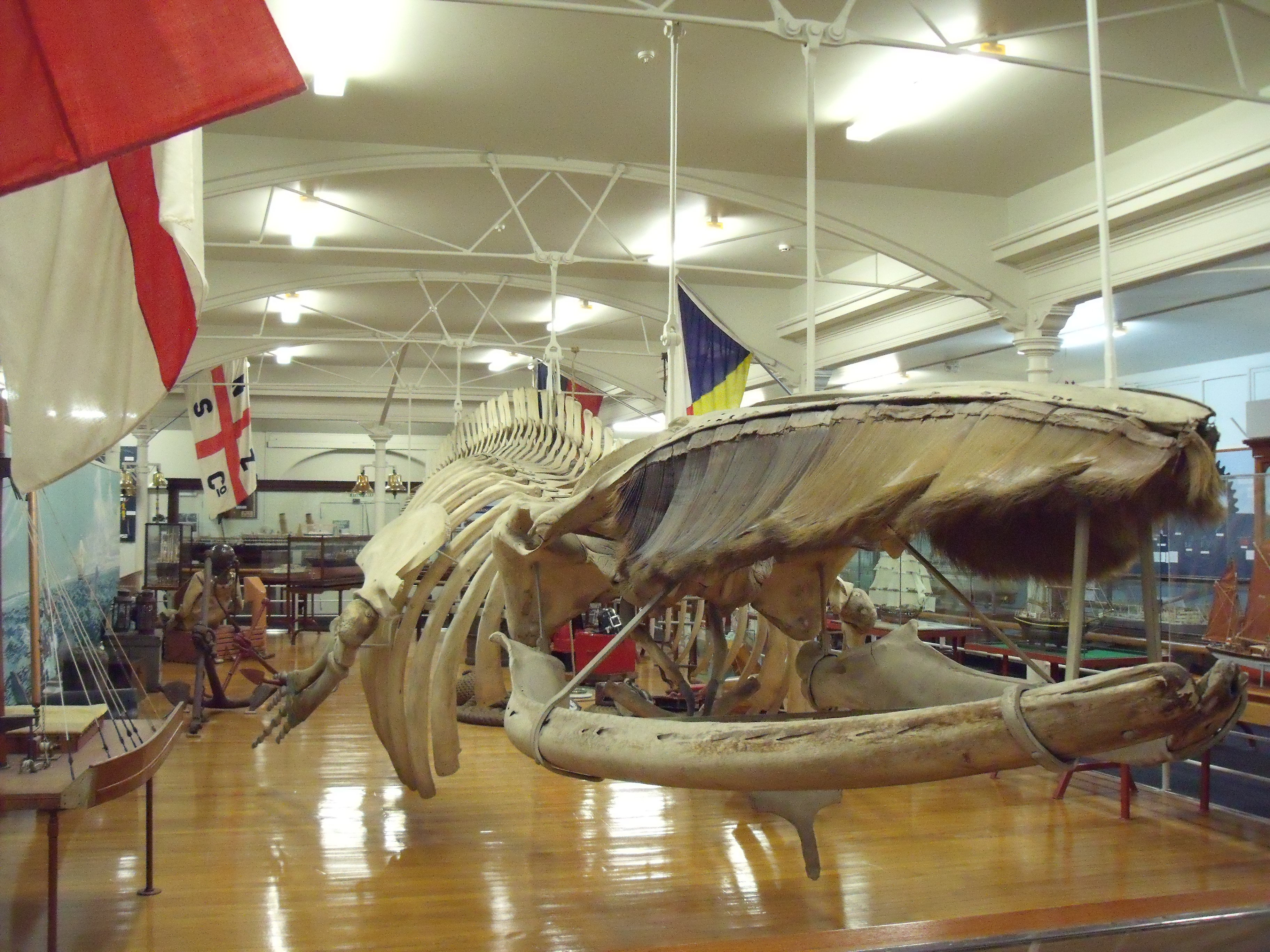 Suspended in Maritime Gallery, in the same position from original mount in 1883